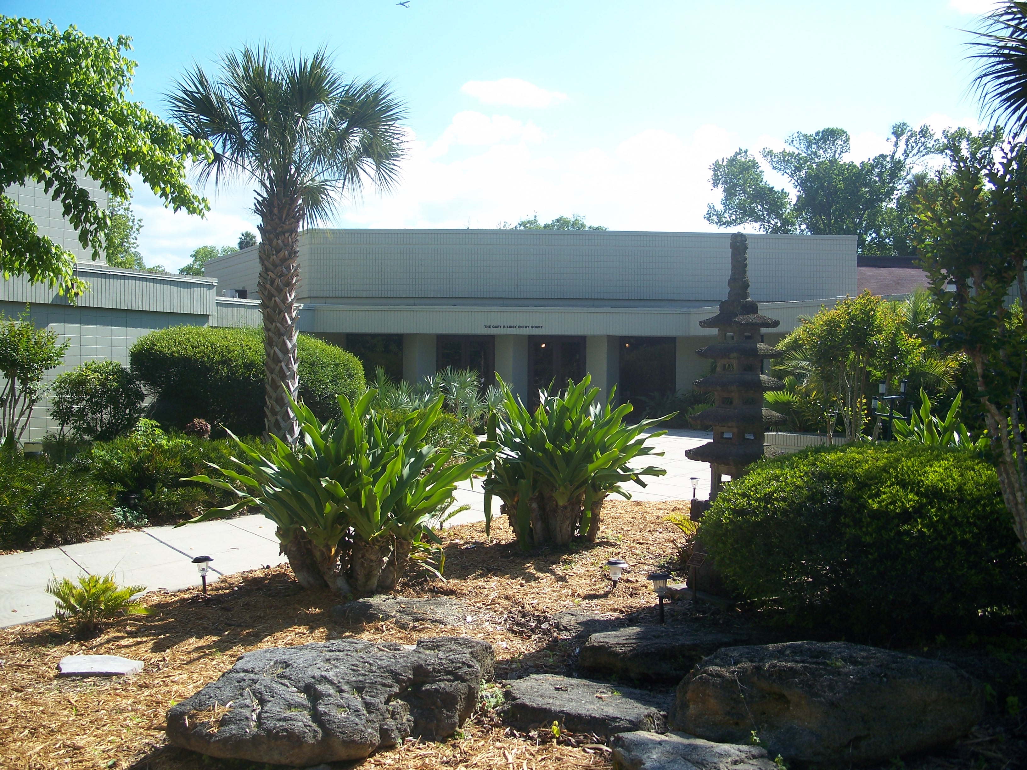 Daytona Beach, Florida: Museum of Arts and Sciences: Entrance